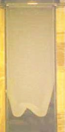 Illustration at lubrication theory of a thin fluid flow with particles.